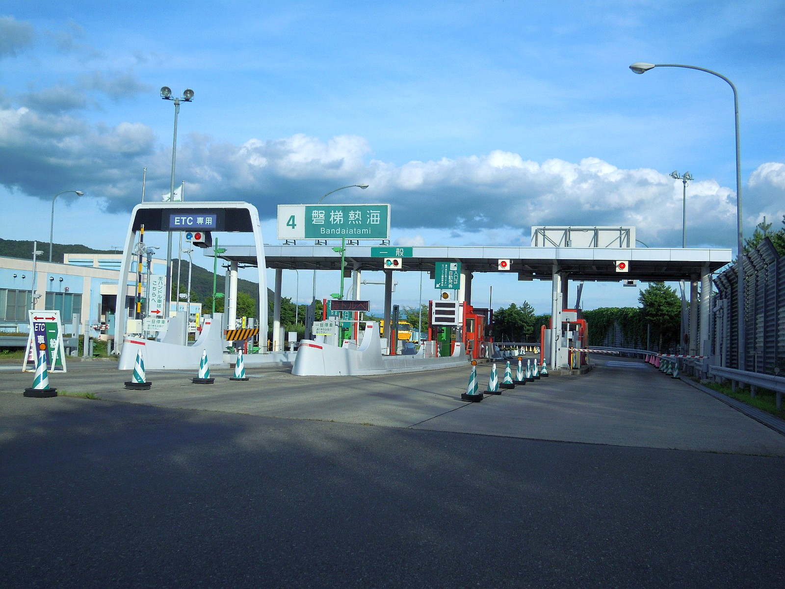 This Interchange, Bandaiatami Interchange, is on Ban'etsu Expressway, in Koriyama City Fukushima Prefecture, Japan.